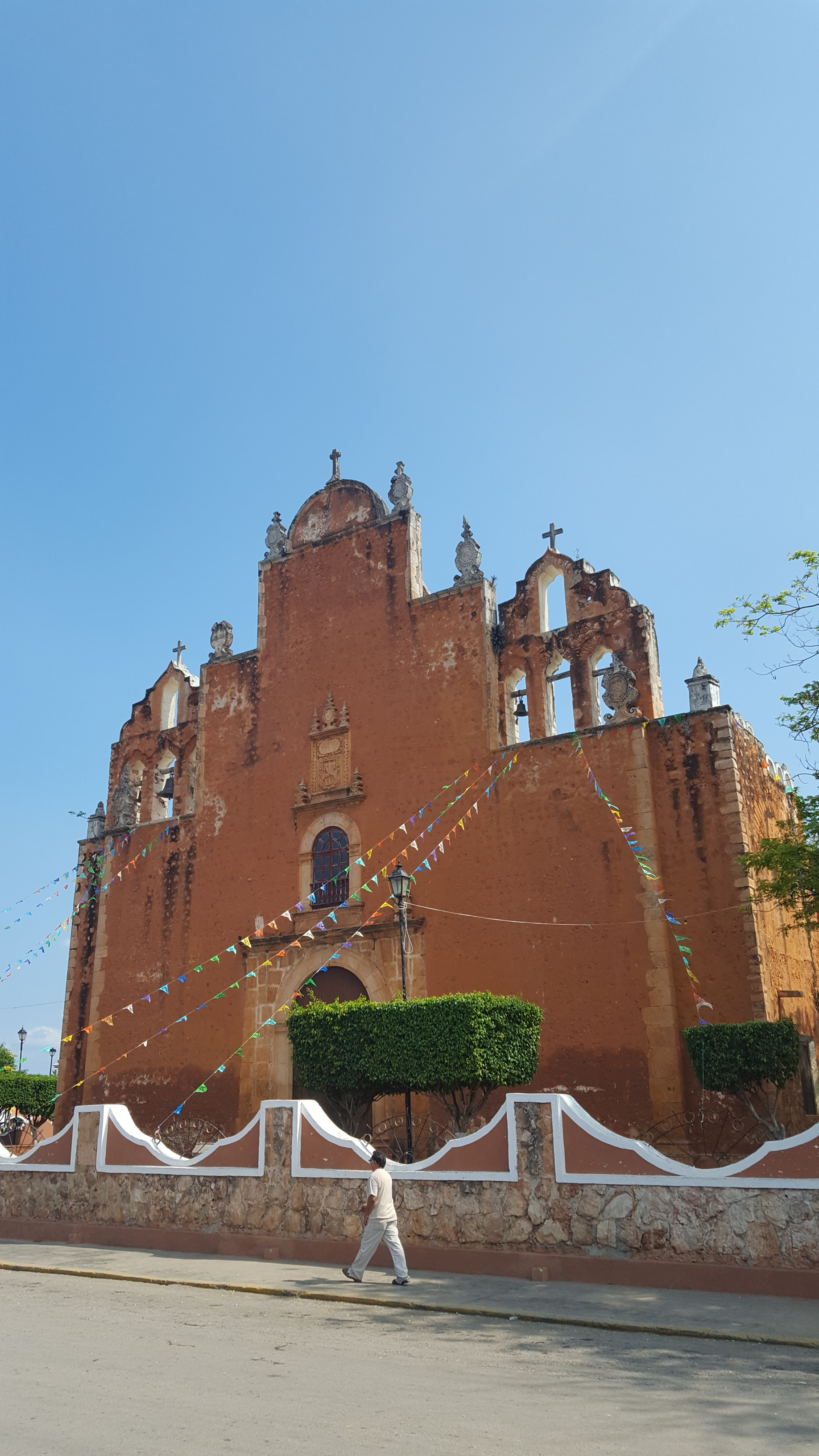 Tekax de Álvaro Obregón, Yucatan, MEXICO